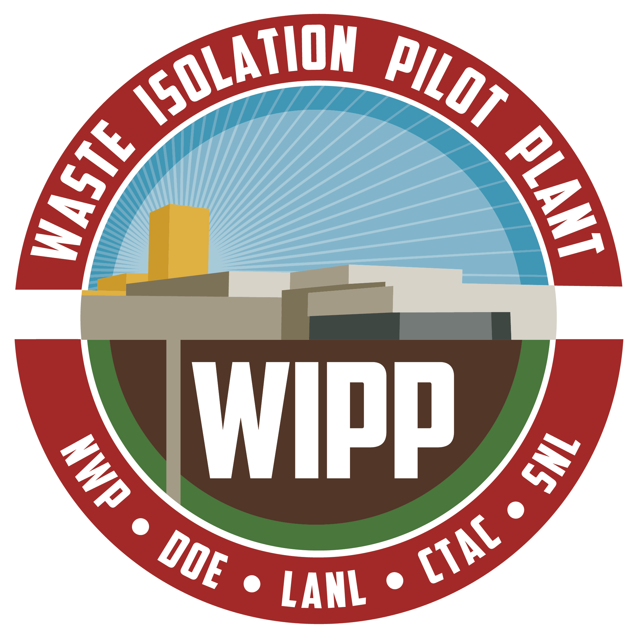 Seal of the Waste Isolation Pilot Plant introduced in 2017